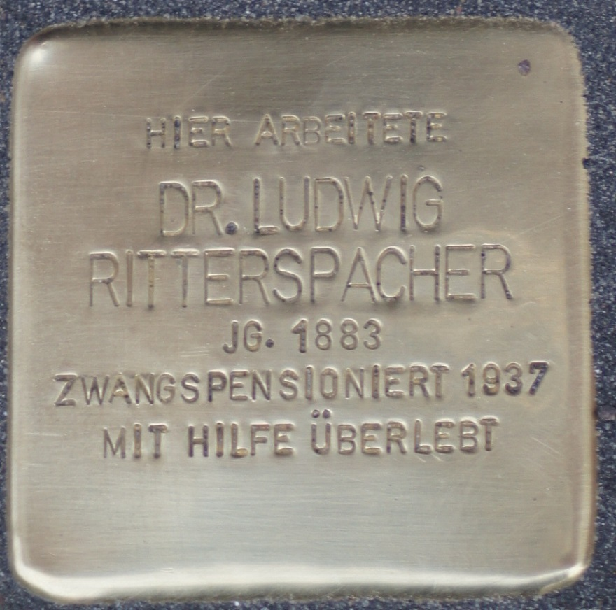 Ludwig Ritterspacher, Stolperstein, Bahnhofstrasse 33, Frankenthal